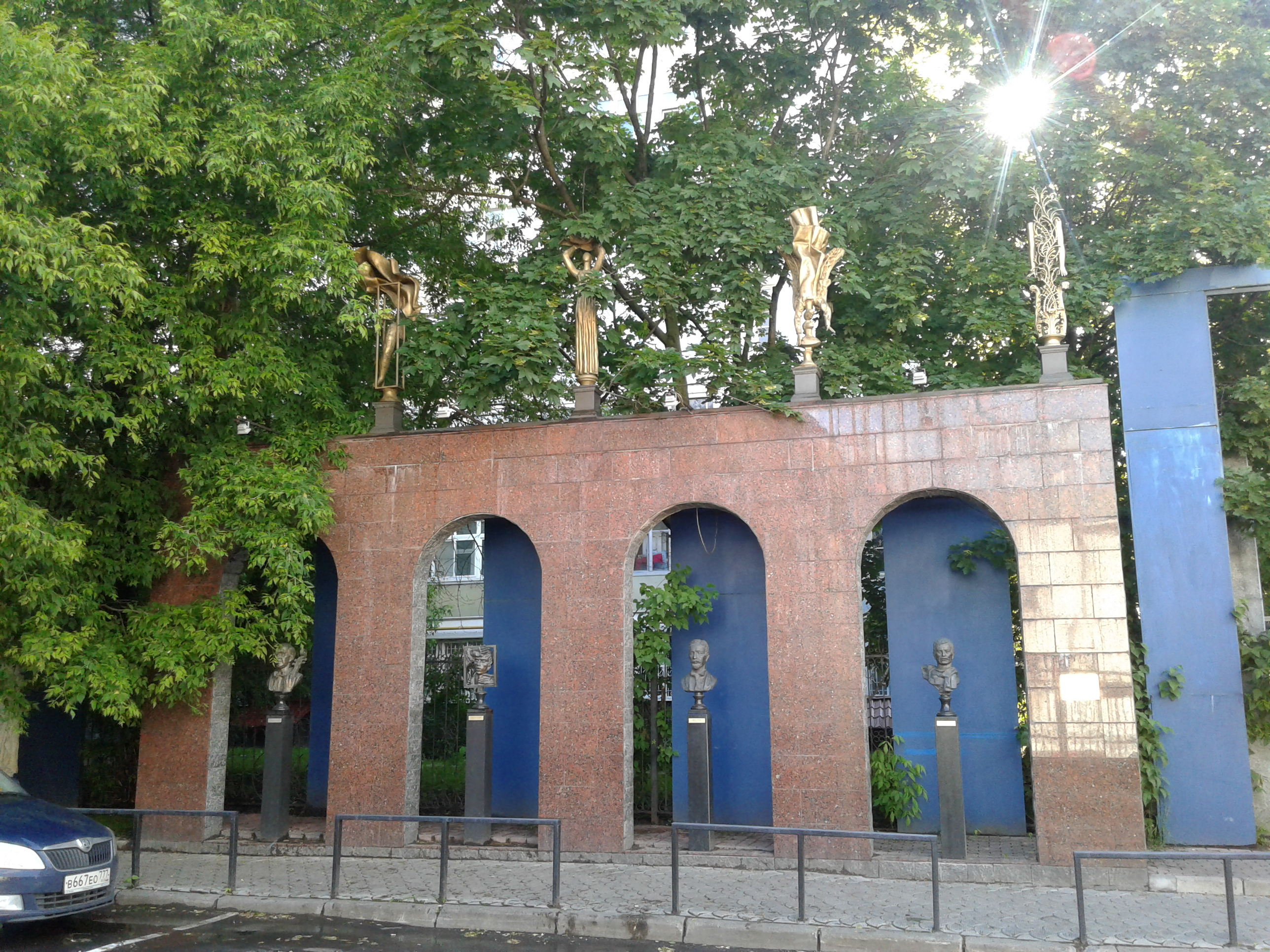 Museum «Bourganov house» in Moscow, Russia